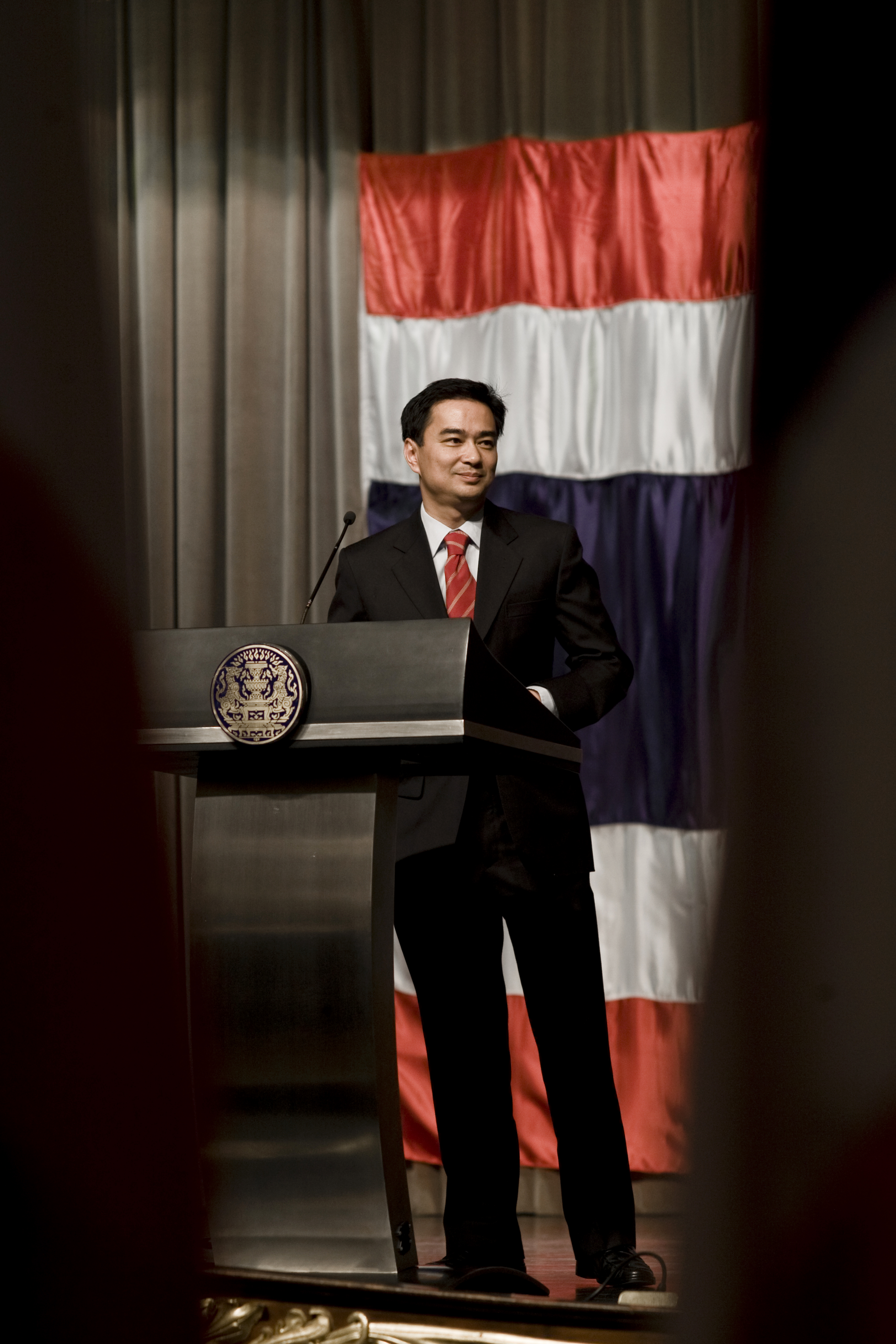 Abhisit Vejjajiva at the Thai Government House on September 18, 2009. นายกรัฐมนตรี เป็นประธานเปิดโครงการและขอความร่วมมือหน่วยงานภาครัฐและเอกชนในการดำเนิน โครงการ "ไทยสามัคคี ไทยเข้มแข็ง" ระหว่างหน้าตึกสันติไมตรี และตึกไทยคู่ฟ้า ทำเนียบรัฐบาล 18 กันยายน 2552 (The Official Site of The Prime Minister of Thailand Photo by พีรพัฒน์ วิมลรังครัตน์)